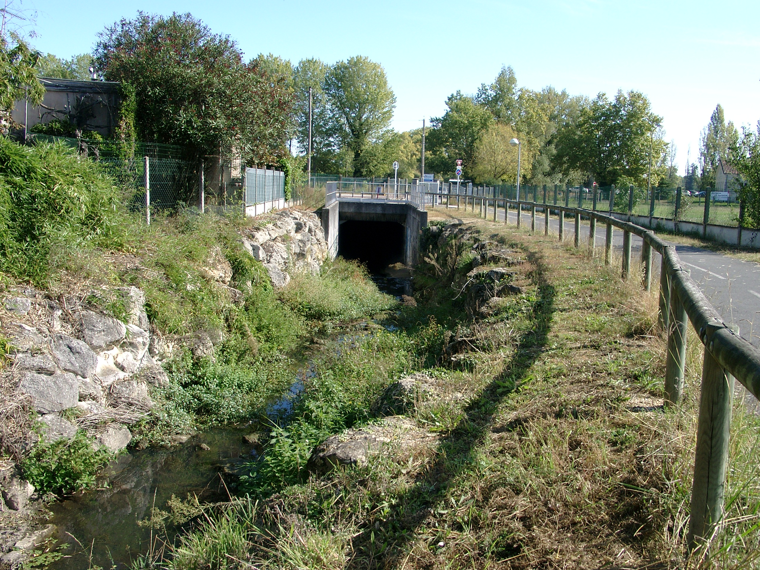 The river Les Ontines, in Merignac (France, Gironde).